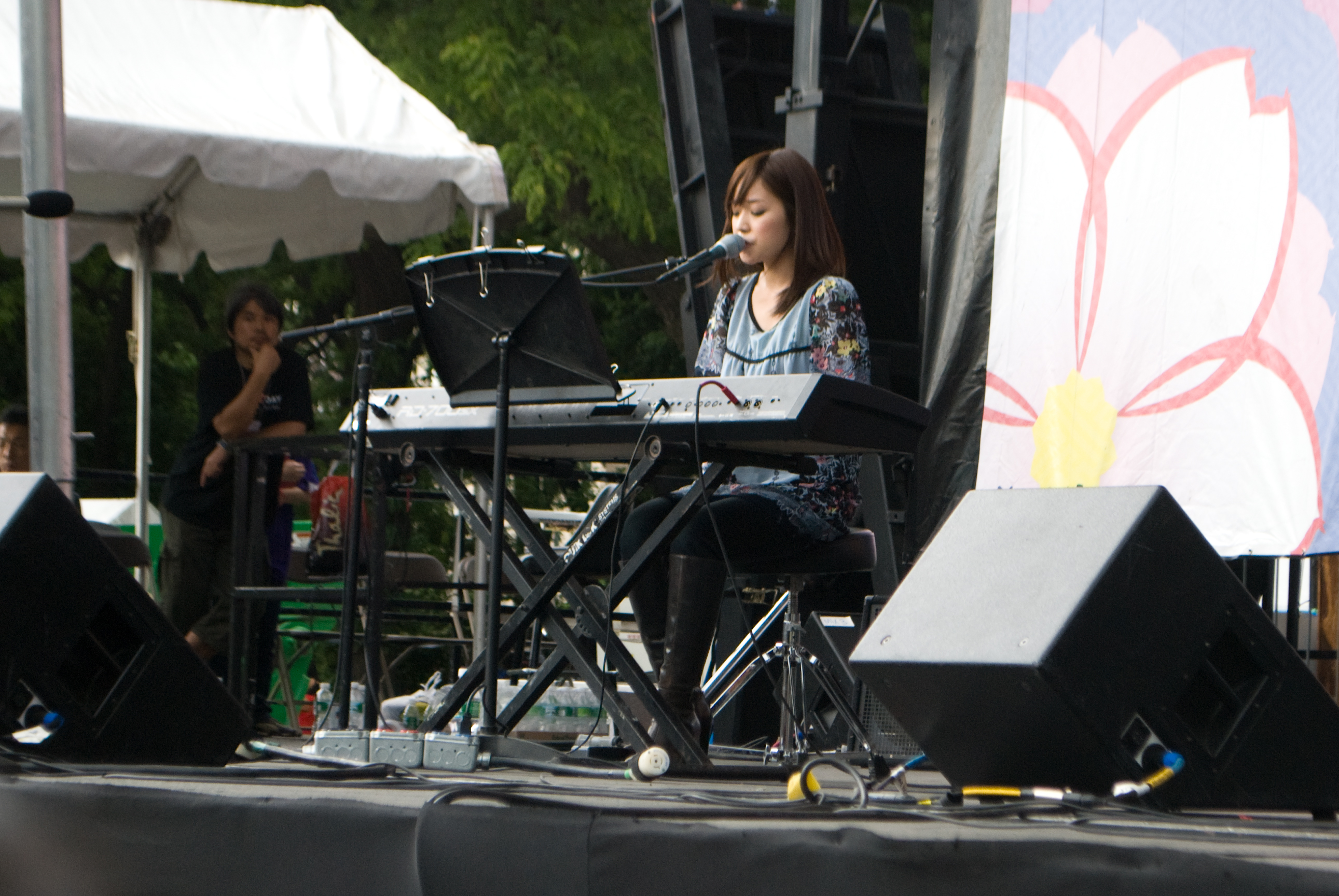 Ai Kawashima live at Japan Day in Central Park, New York City.